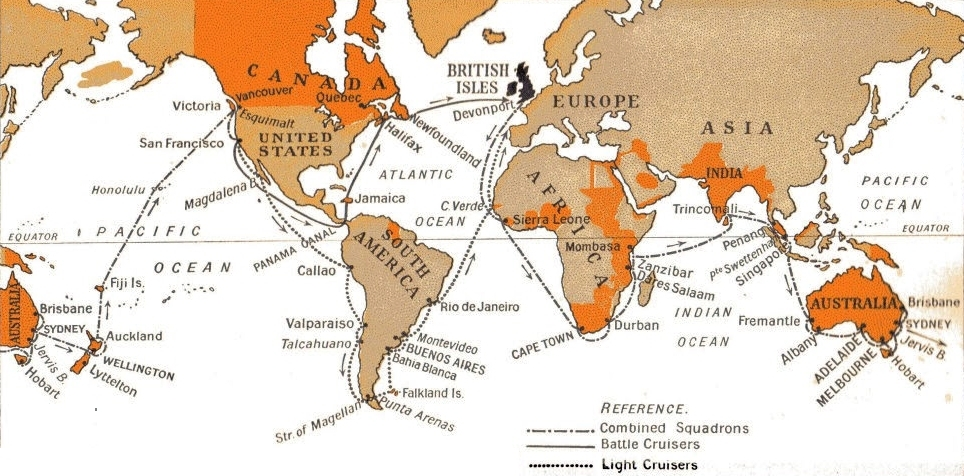 Map of the Royal Navies `Empire Cruise` already upload upon wikipedia (black & white version)